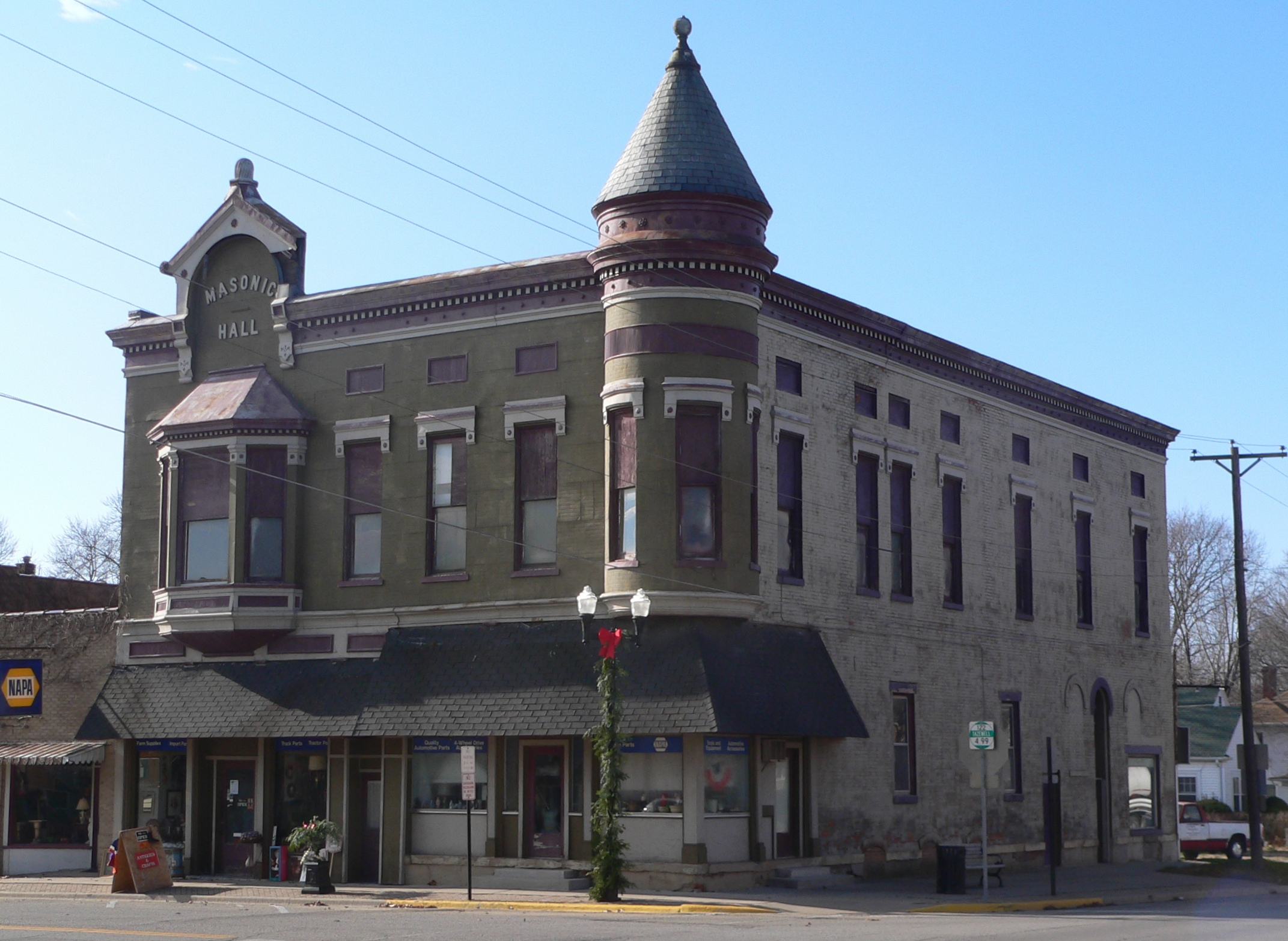 Building at 401 Locust Street in Delavan, Illinois. The 1875 building is a contributing property in the Delavan Commercial Historic District, which is listed in the National Register of Historic Places.